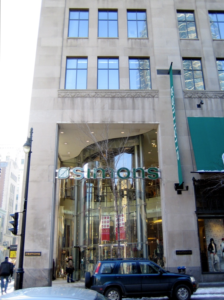 La Maison Simons, located in the former The Robert Simpson Company Limited (Simpsons) department store building, in downtown Montreal. Department store with mostly clothing and home decor.